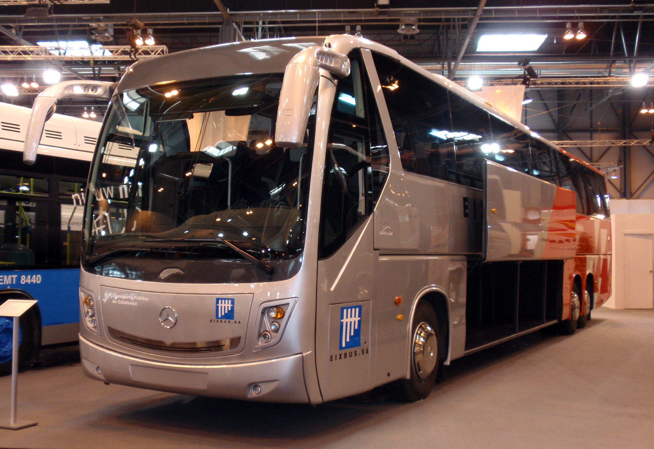 Hispano Divo at the 2008 FIAA (International Bus and Coach Fair) in Madrid